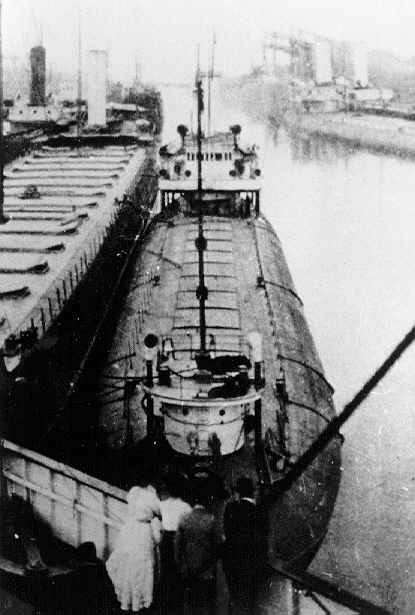 Thomas Wilson in unknown port